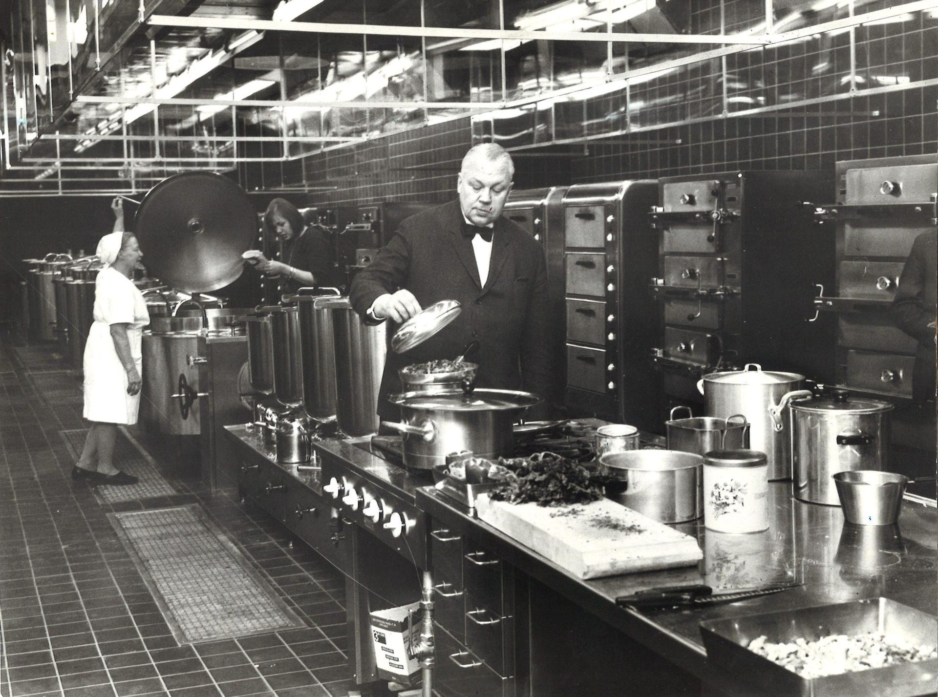 Photograph of the Finnish physician Dr. Pentti Halonen at the kitchen (for the employees’ dining room) of the new Helsinki University Central Hospital building, Meilahti, Helsinki.